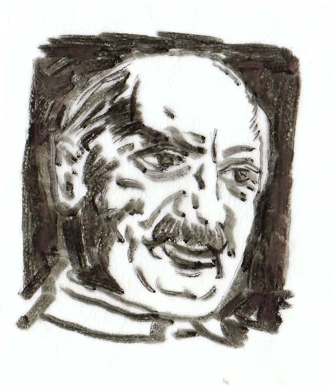 Brush drawing of German philospher Martin Heidegger, made by Herbert Wetterauer, after a photo by Fritz Eschen